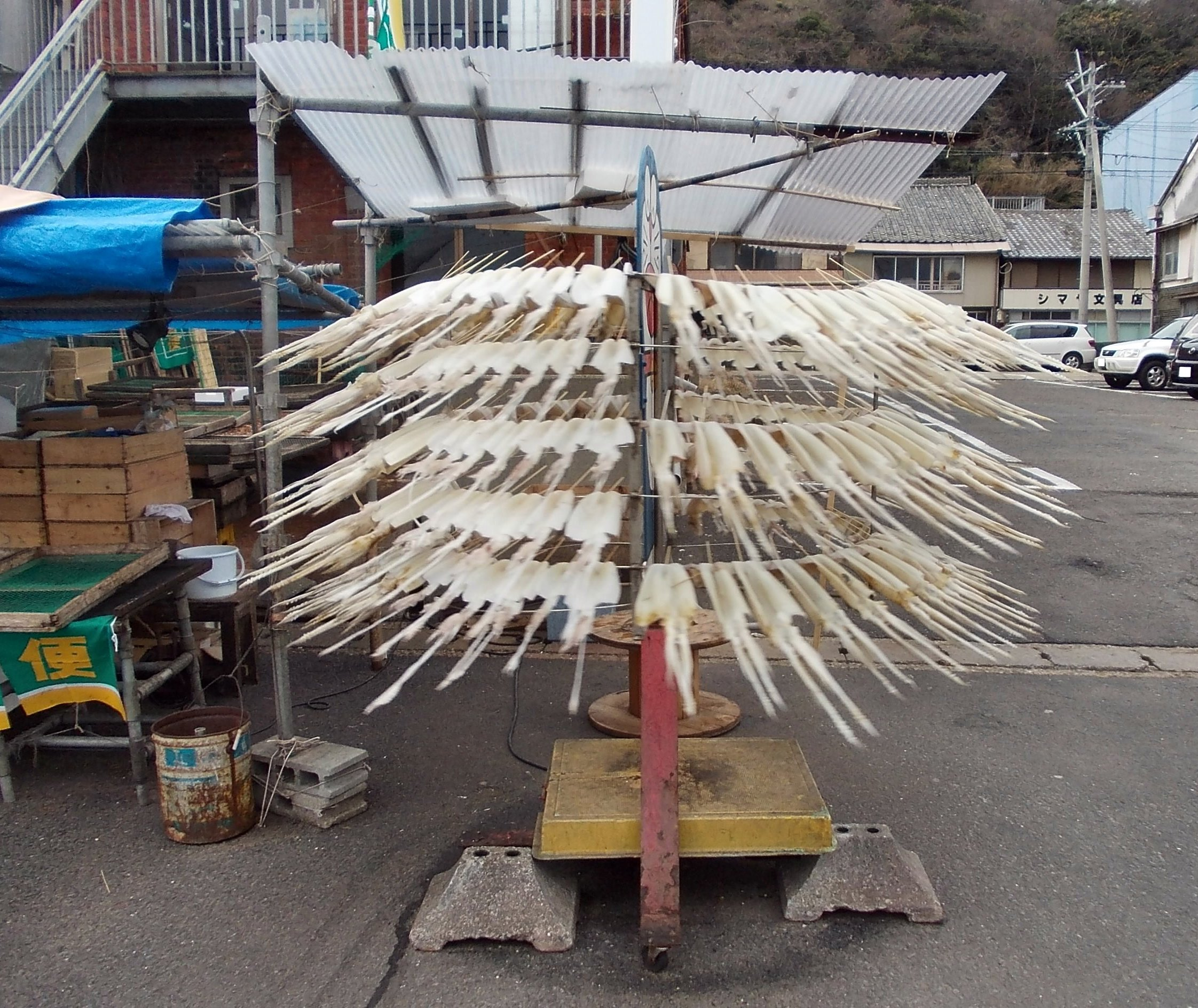 Dried squid rolling Machine, Yobuko Port, Saga, Japan